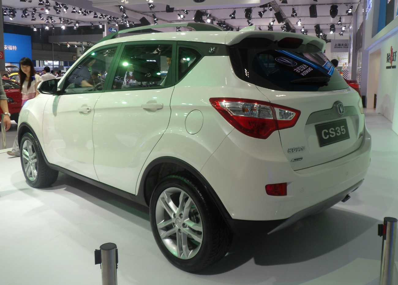 Chang'an CS35 photographed at the 2012 Chongqing Auto Show, Chongqing, China.